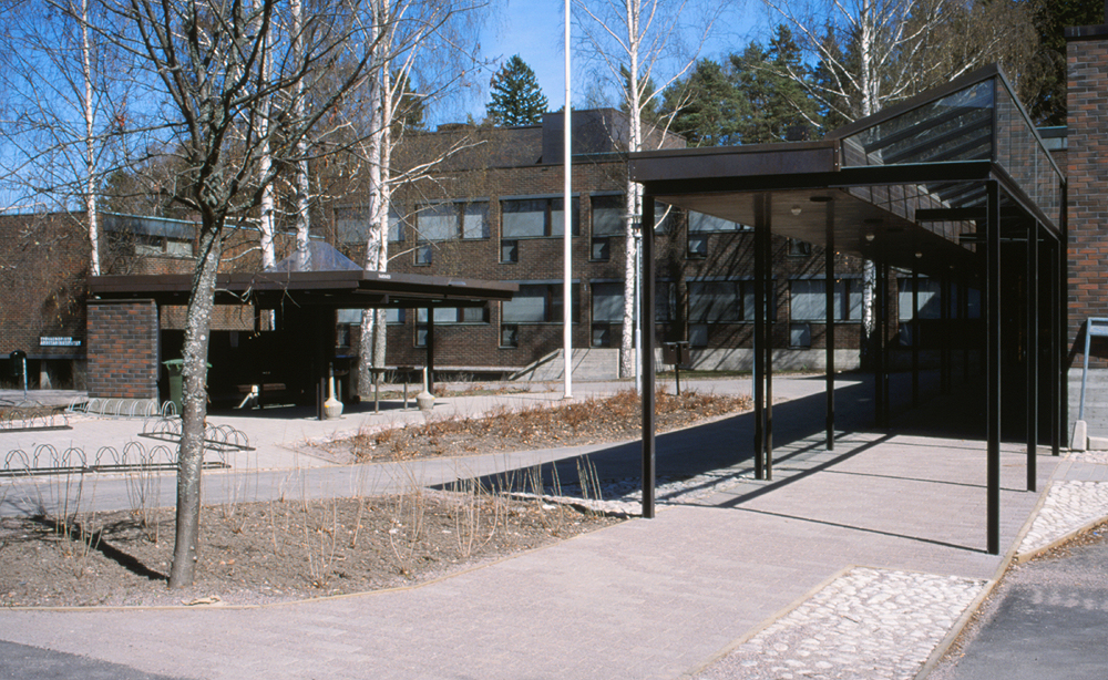 Laurea University of Applied Sciences. Leppävaara campus entrance.